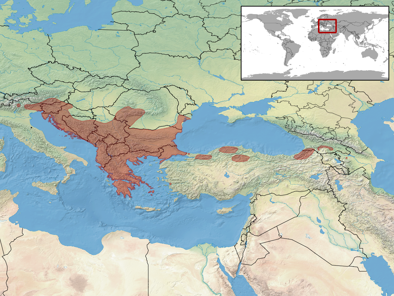 geographic distribution of Vipera ammodytes including Vipera ammodytes subspecies transcaucasiana (often recognized as distinct species) V. ammodytes: Native: Albania; Austria; Bosnia and Herzegovina; Bulgaria; Croatia; Georgia; Greece; Italy; Macedonia, the former Yugoslav Republic of; Montenegro; Romania; Serbia (Serbia); Slovenia; Turkey V. transcaucasiana: Native: Azerbaijan; Georgia; Iran, Islamic Republic of; Turkey